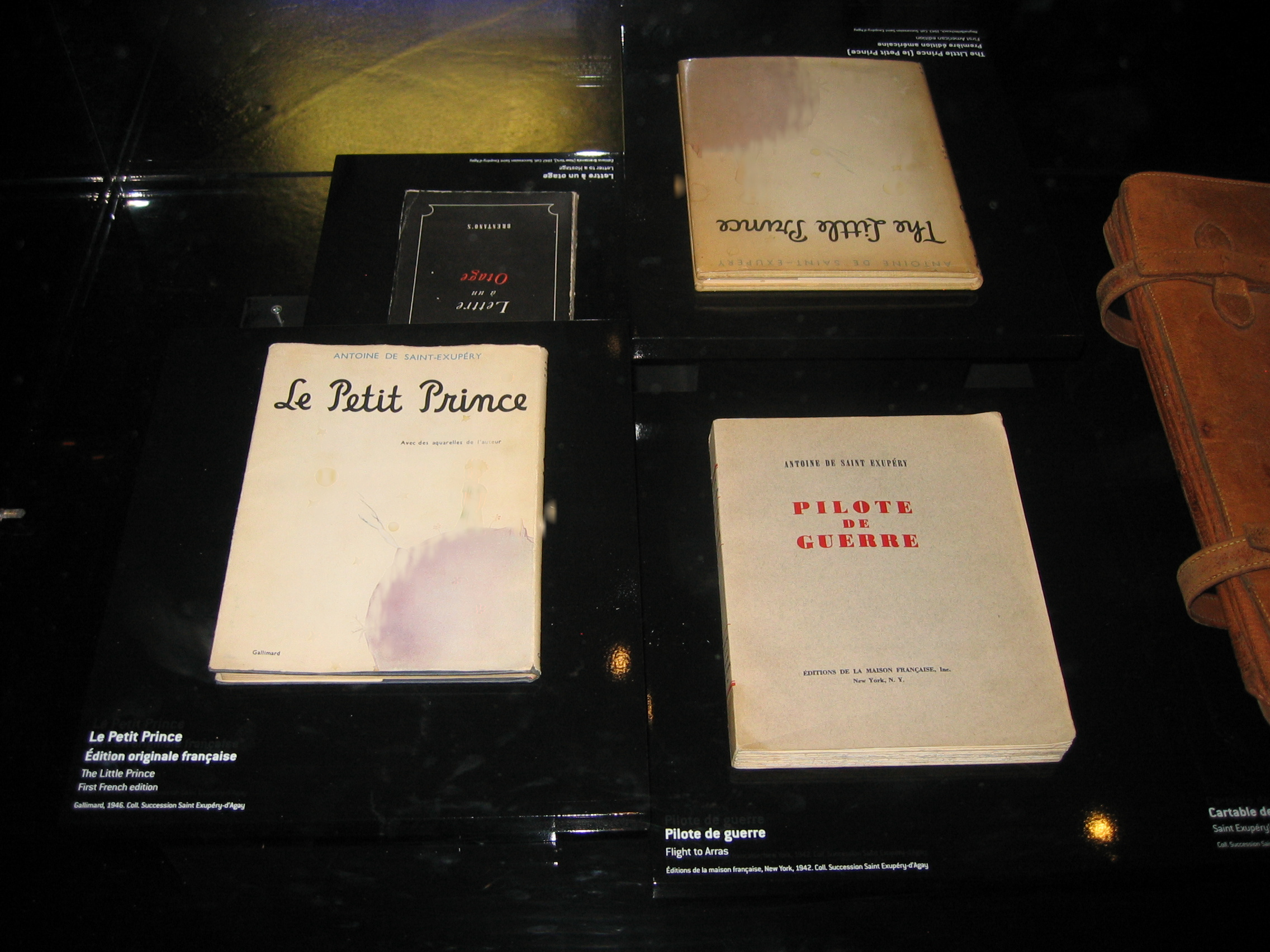 Antoine de Saint-Exupéry exhibit at the French Air and Space Museum in Le Bourget, Paris. Shown are four title's from Saint-Exupéry's works: Le Petit Prince (lower left), The Little Prince (upper right), Pilot de Guerre (lower right) and Lettre à un otage (upper left).